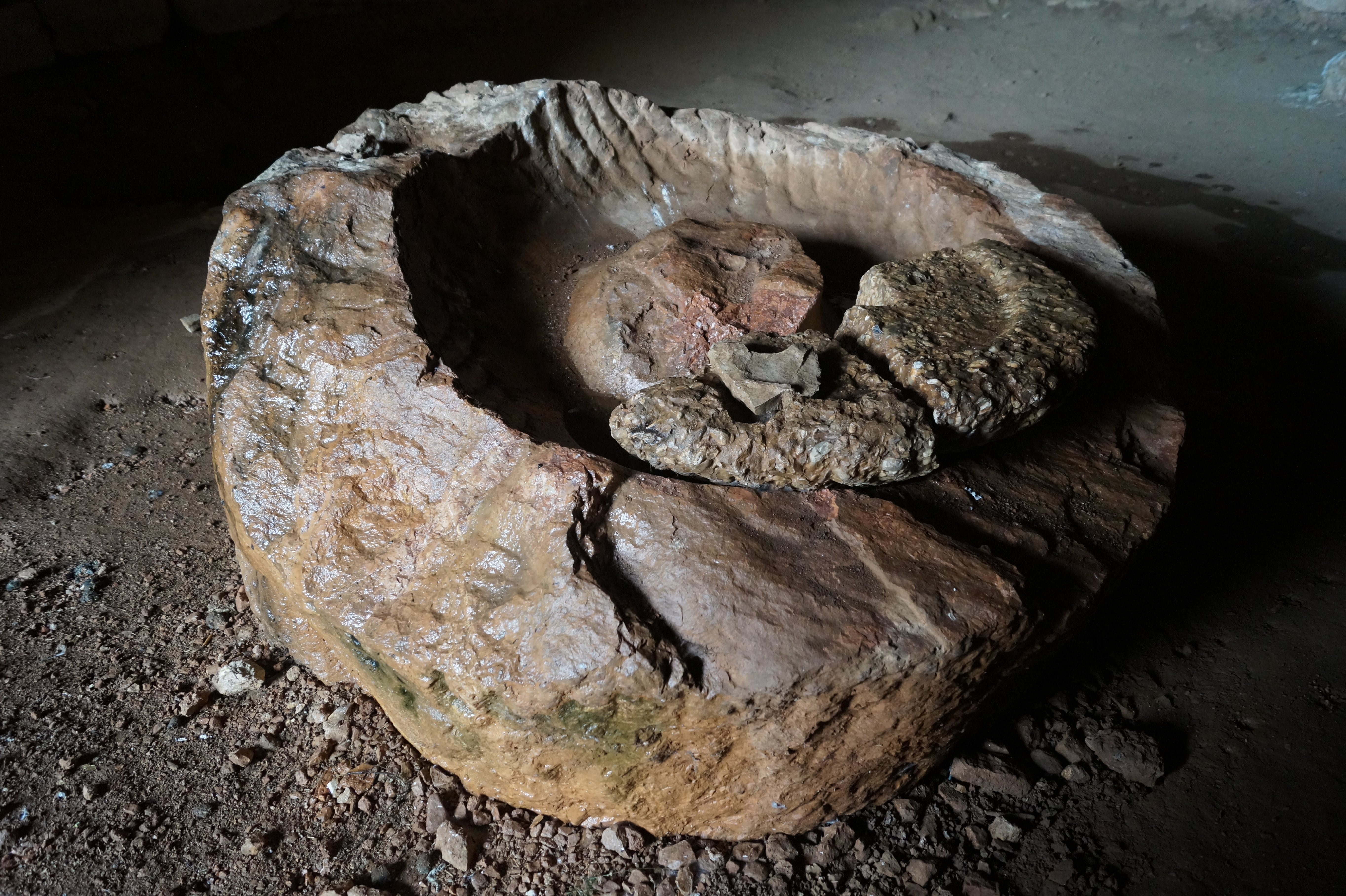 Tiryns, Argolis, Greece: Roman oil mill inside the tholos tomb of Tiryns.